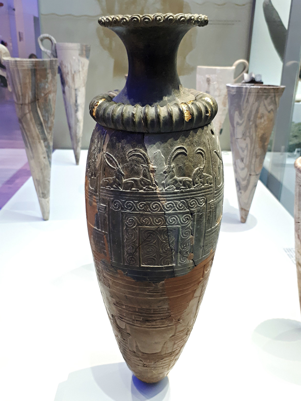 Conical rhyton made of chlorite with traces of gilding. Depicts open-air sanctuary in a rocky landscape with wild goats. Palace of Zakros, 1500-1450 BC.